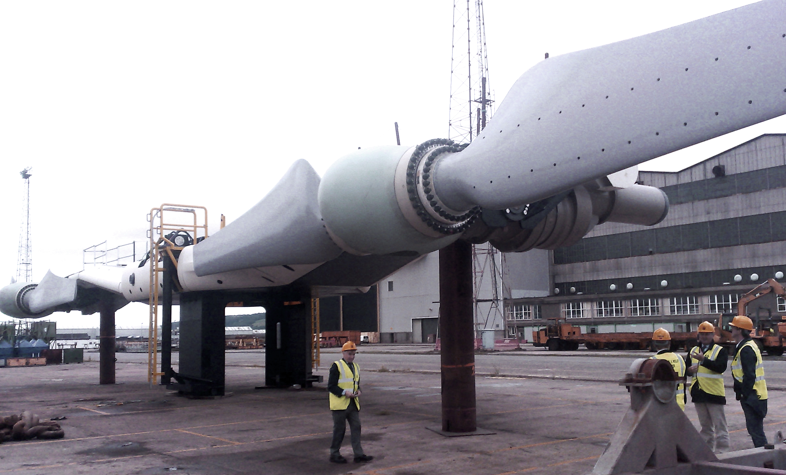 Tidal electricity generator awaiting installation.